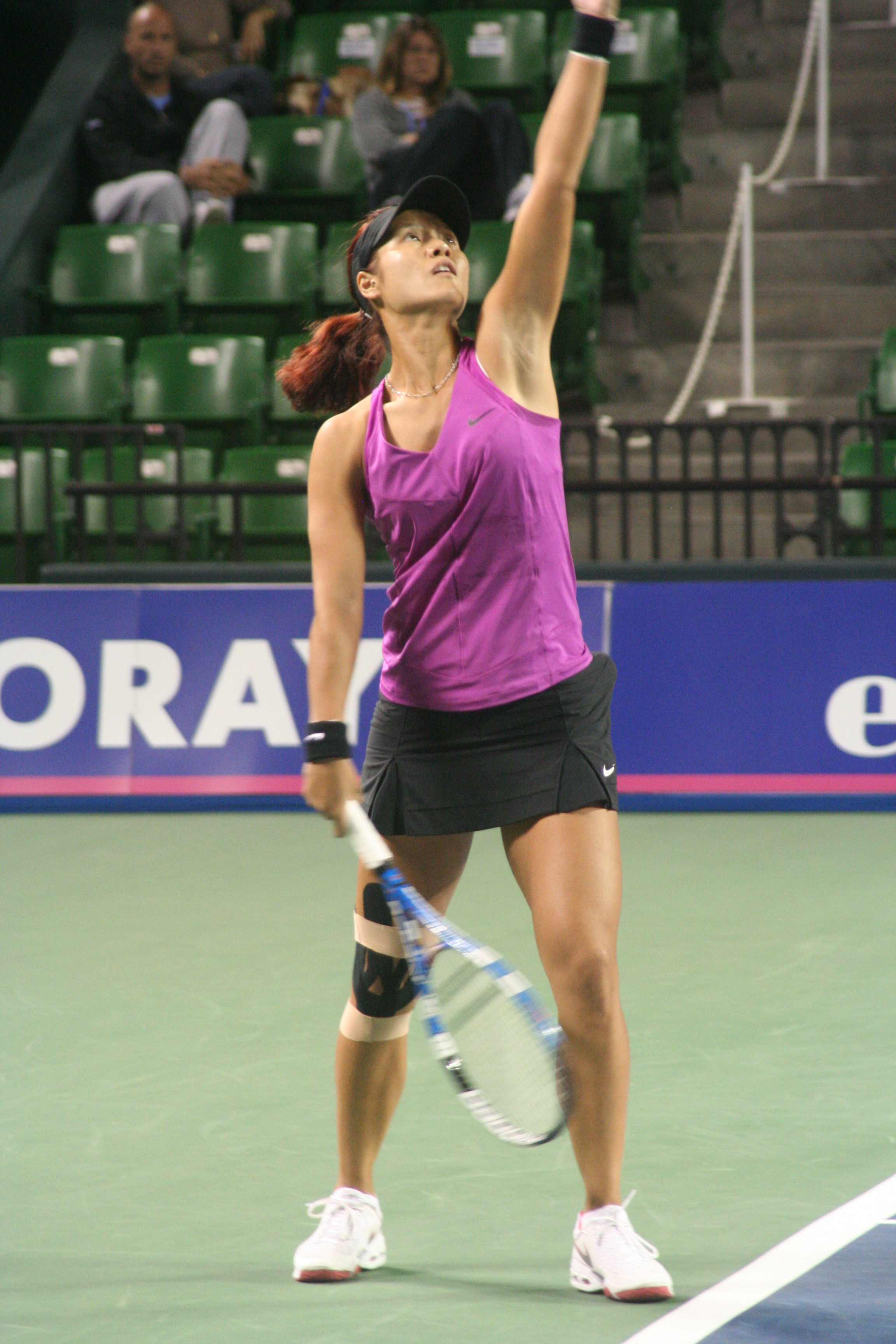 Chinese Tennis player Li Na on the opening day of the Toray Pan Pacific Open 2009 in Tokyo.